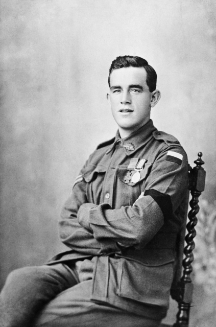 This image shows a photograph of Australian Thomas Axford VC (also known as Jack Axford), most probably taken shortly after World War I.